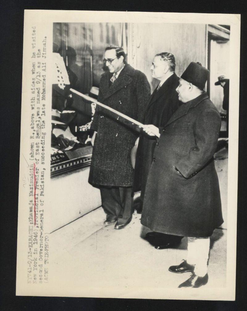 "Khwaja Nazimuddin (shown right, above, with aides, when he visited New York in 1946), Provincial Premier of East Pakistan, was named 9/13 as the second Governor-General of Pakistan, succeeding the late Mohammed Ali Jinnah." Source: ebay, May 2008